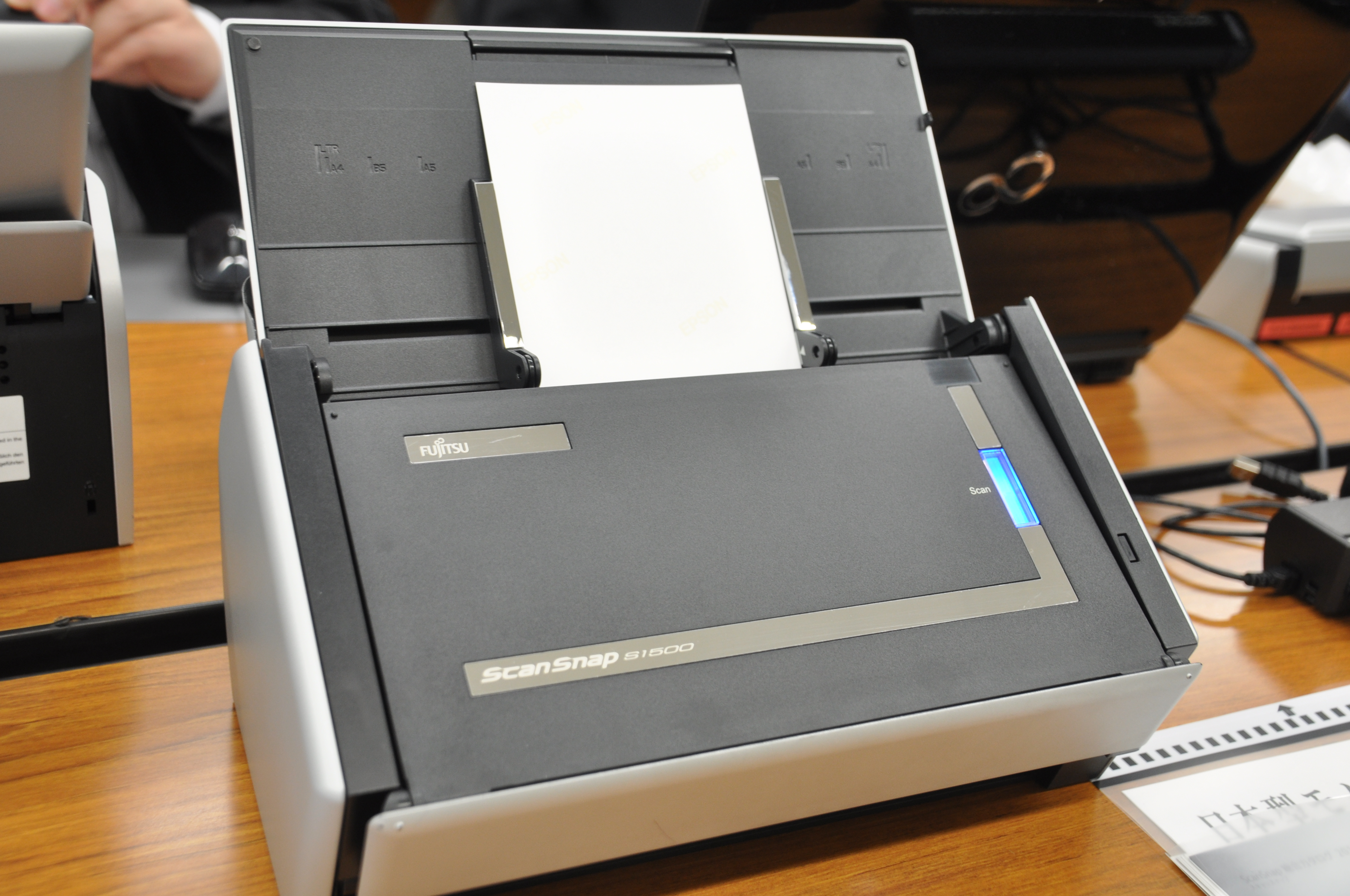 Scansnap S1500_001